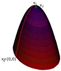 Conjugate gradient method, illustration in 3 dimension